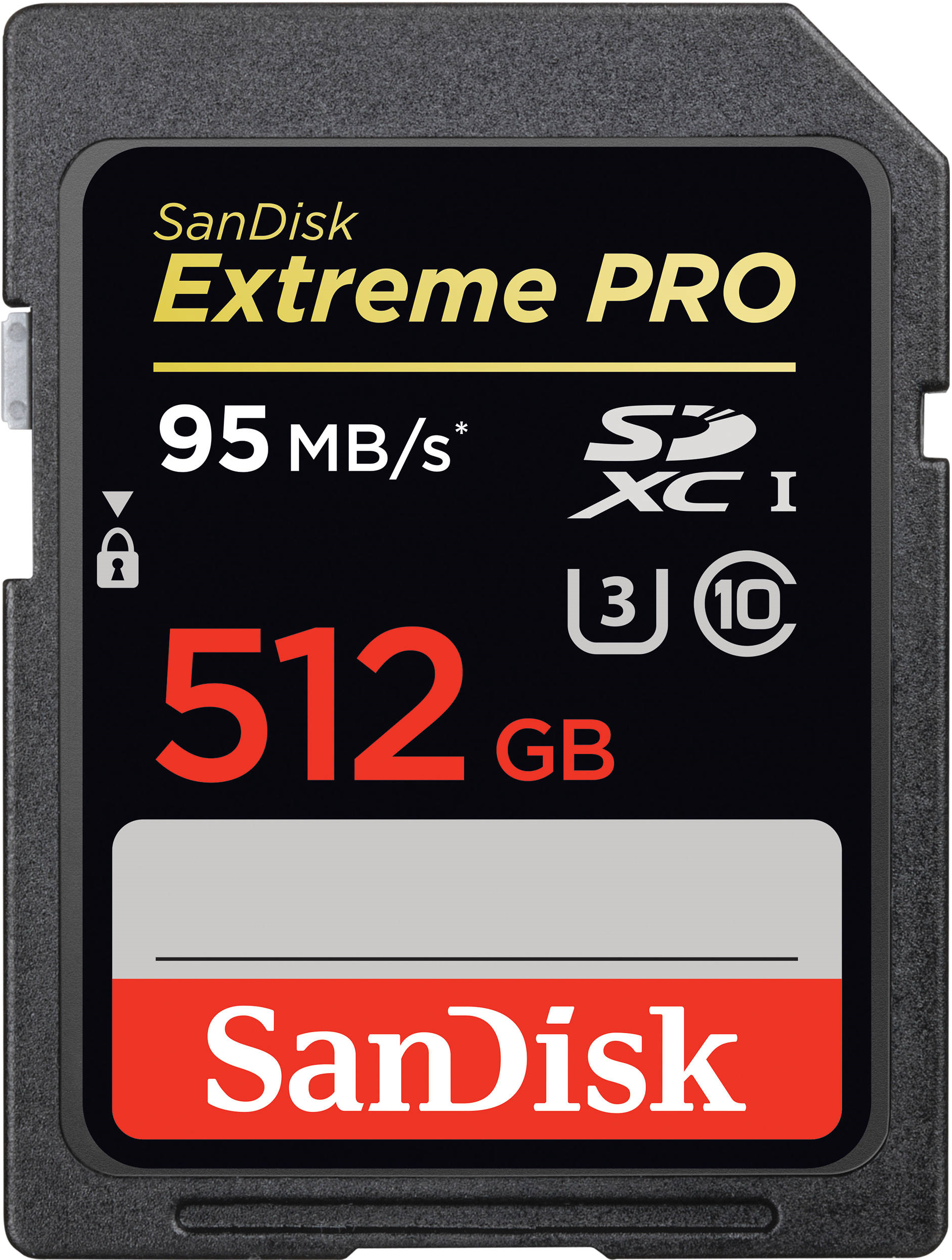 512 GB SDXC MMC card